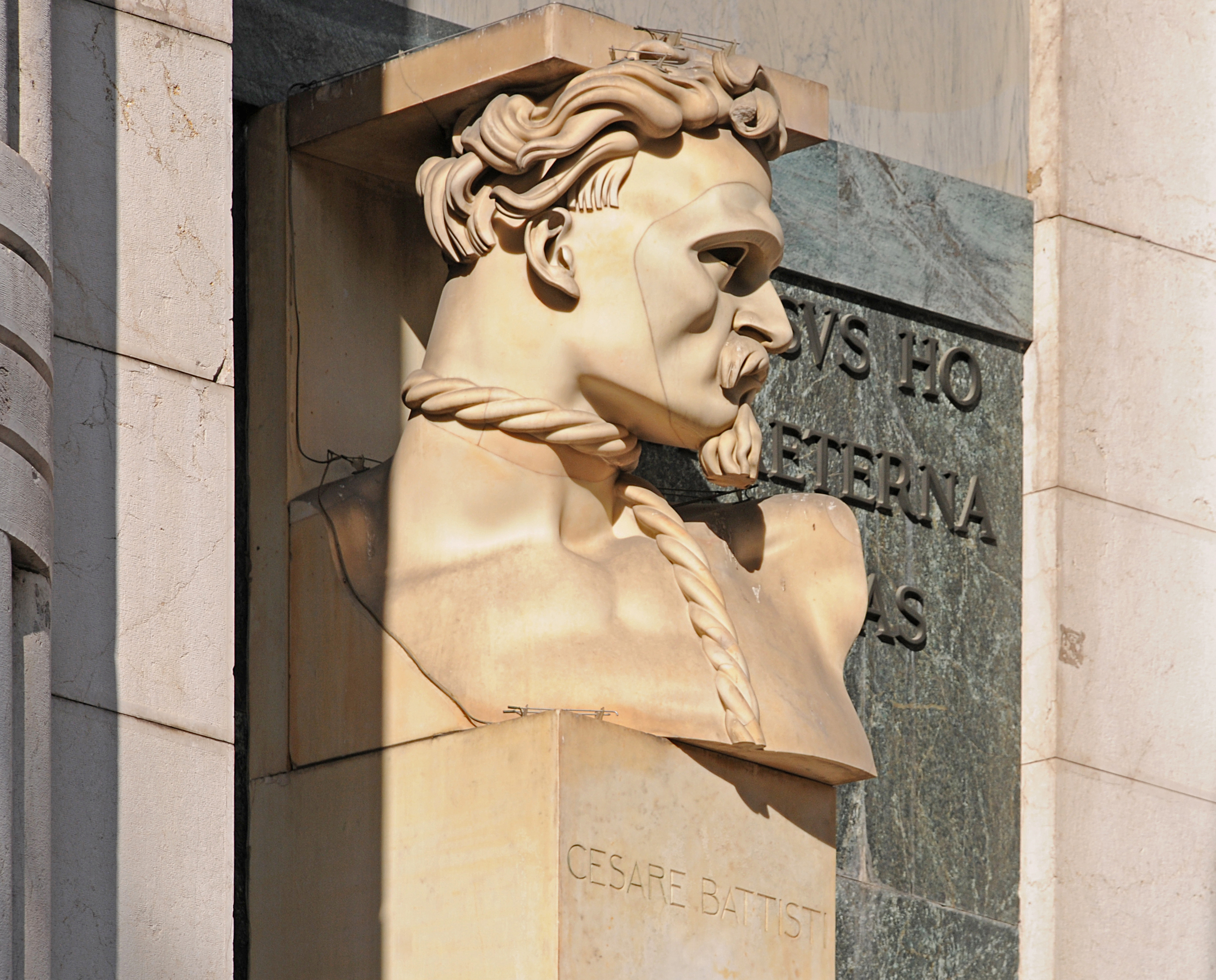 Cesare Battisti by Adolfo Wildt (Milano, 1 marzo 1868 – Milano, 12 maggio 1931) in the Monumento della Vittoria (Bolzano Victory Monument) in Bolzano Italy